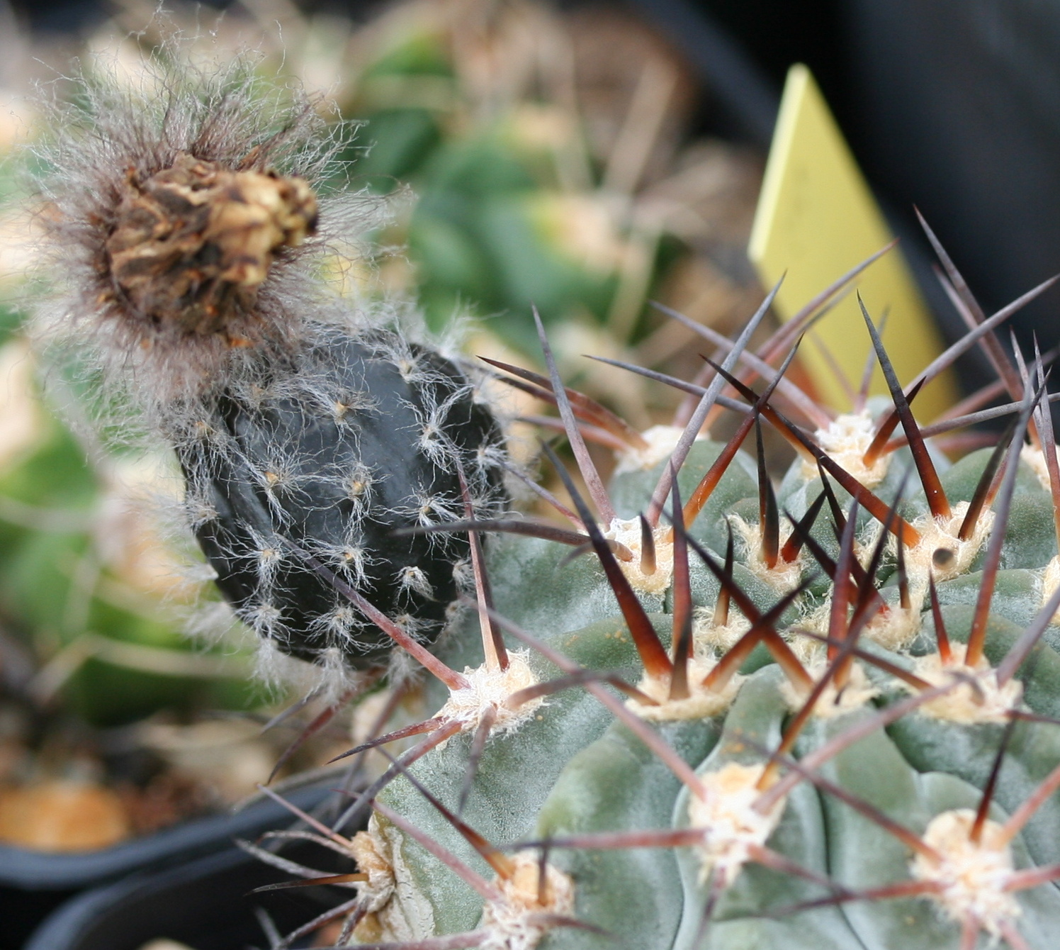 unreife Frucht an Acanthocalycium glaucum